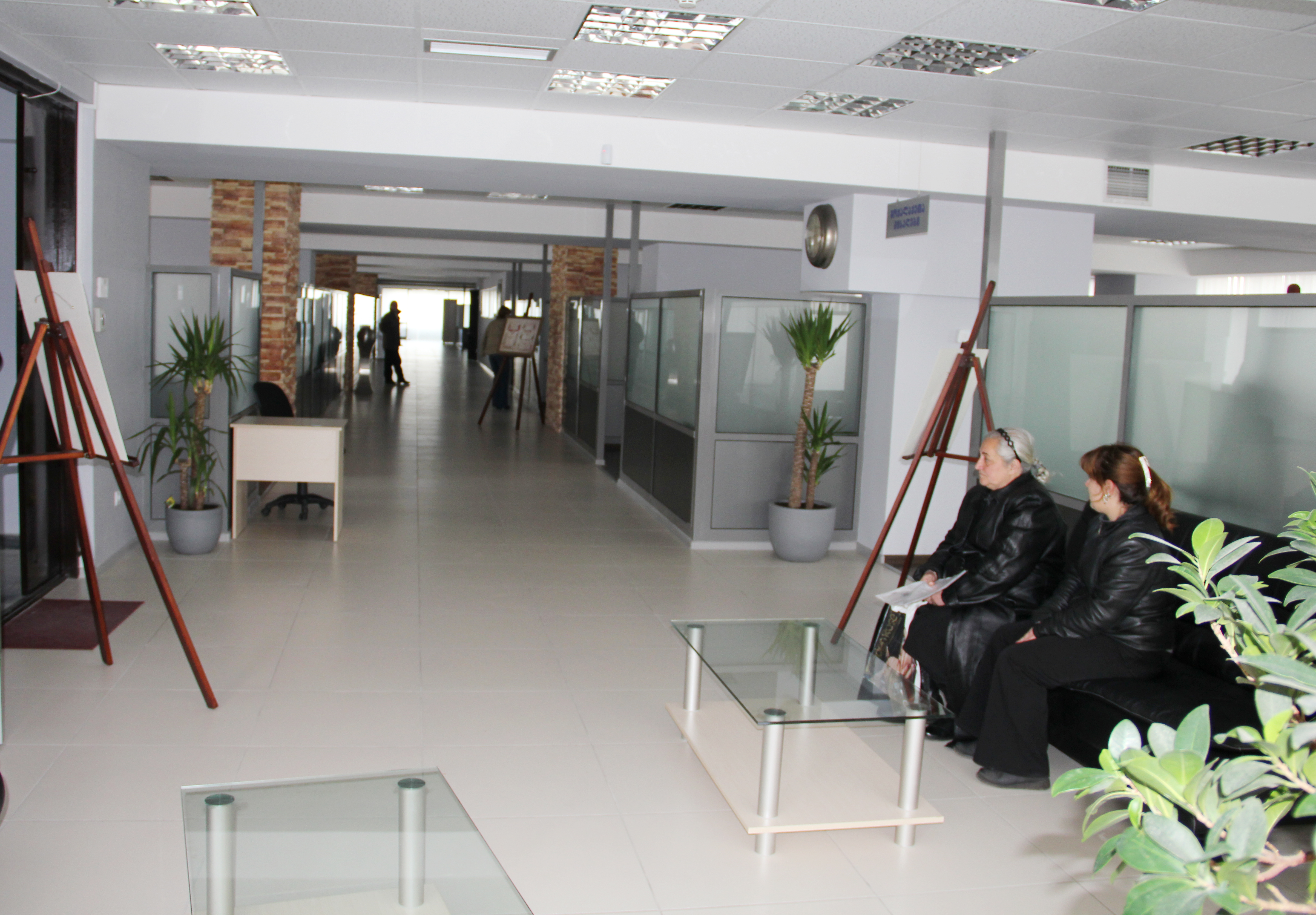 Notary Chamber of Georgia